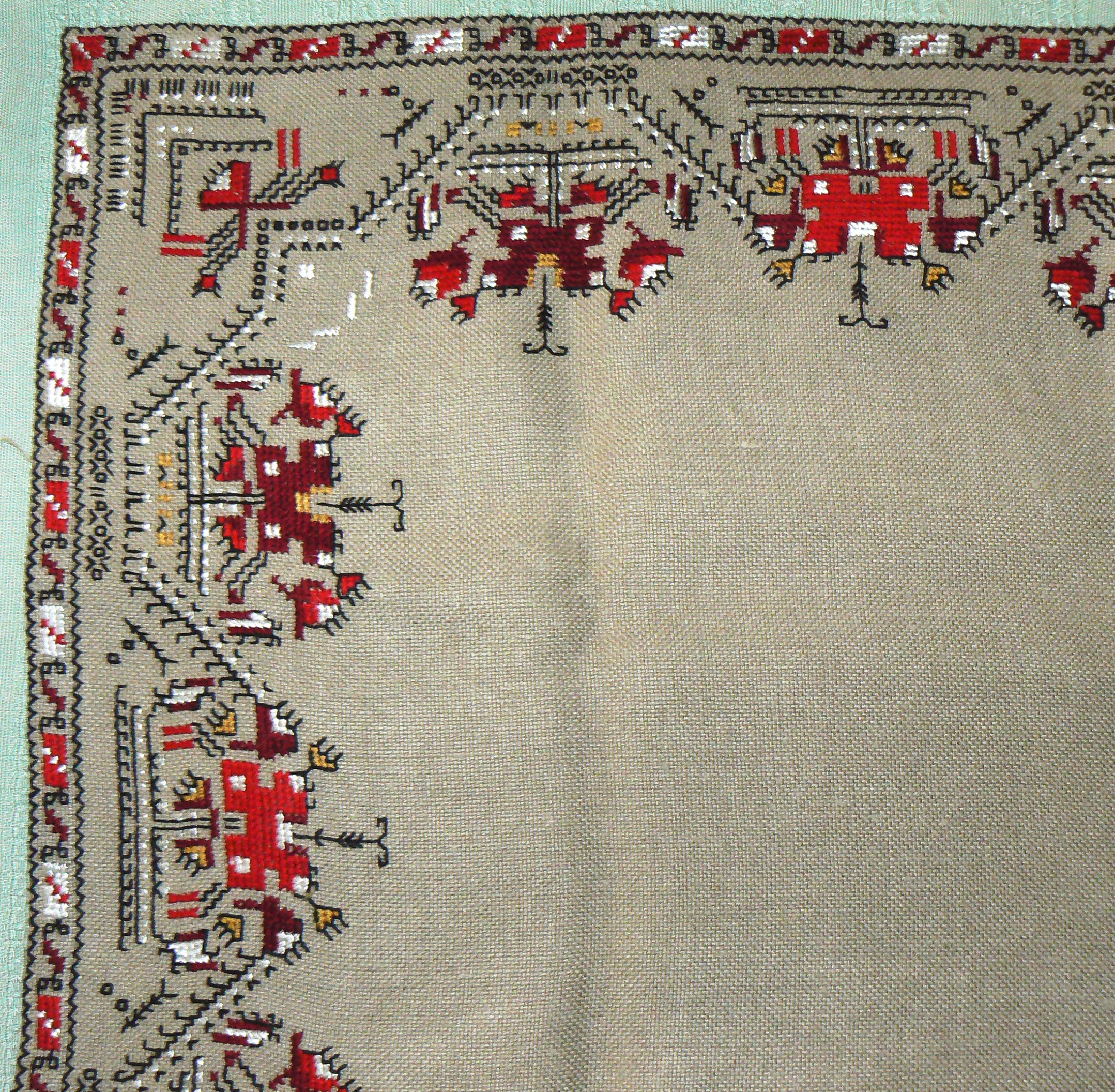 Traditional tablecloth embroidery from the 1930s from village Divotino, Bulgaria